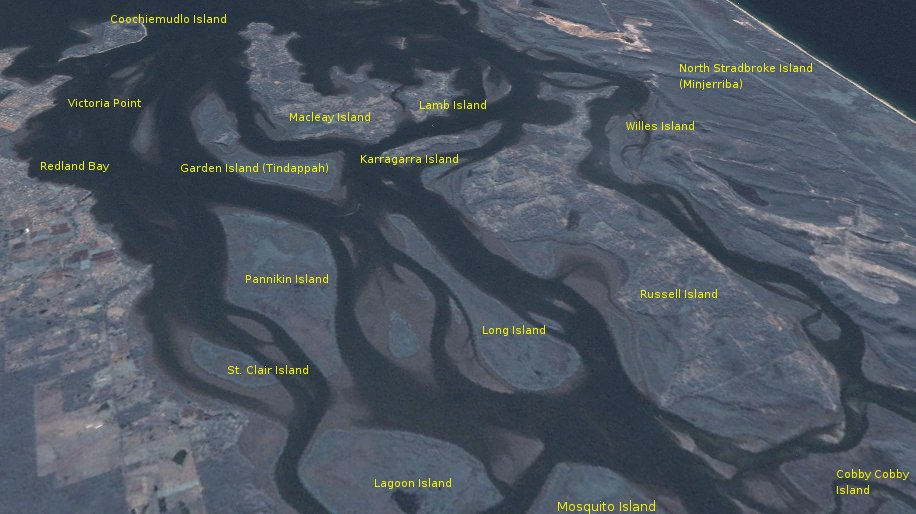 worldwind://goto/world=Earth&lat=-27.65438&lon=153.36087&view=0.22839 plus labelling by Lee Shipley